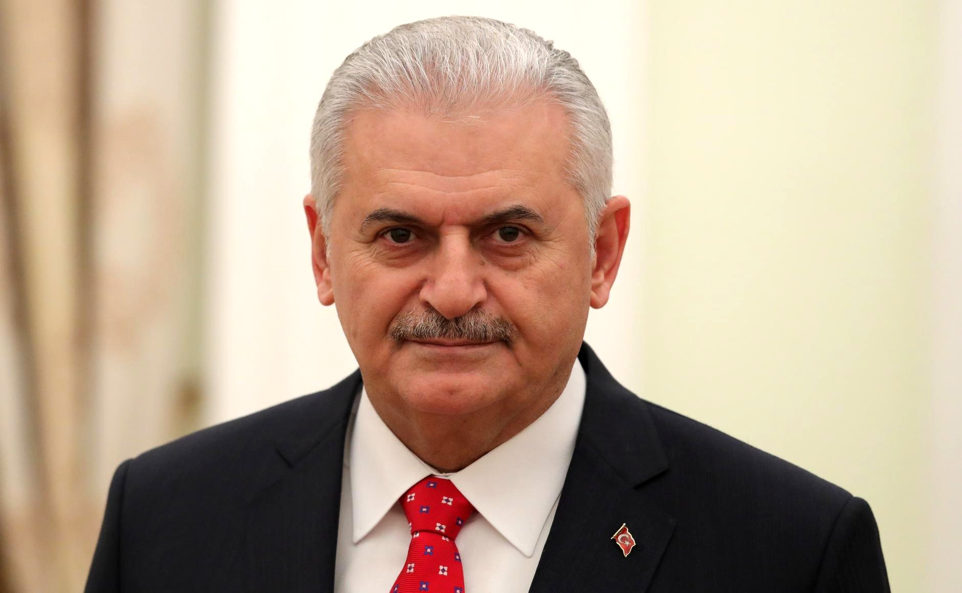 Binali Yıldırım, Prime Minister of Republic of Turkey.